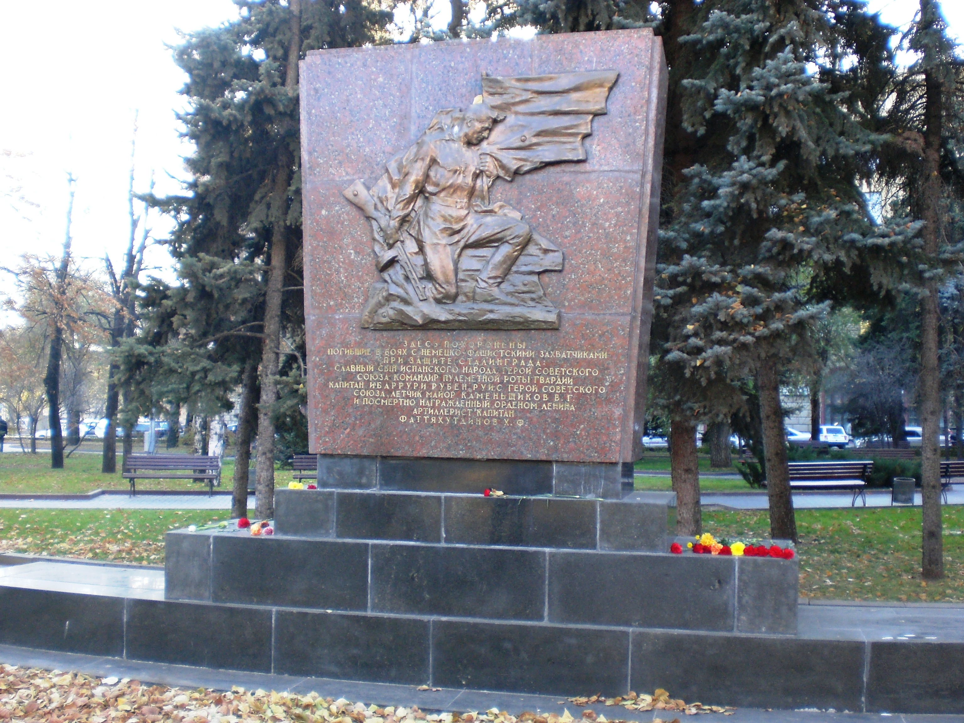 Monument to Ruben Ibarruri on Alleya Heroev in Volgograd. Russia